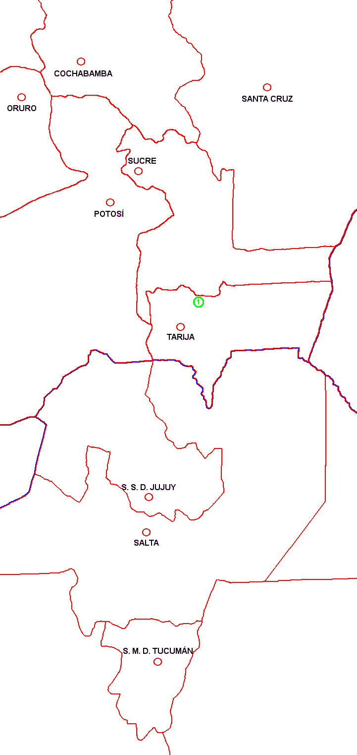 Rebutia albiflora - range map